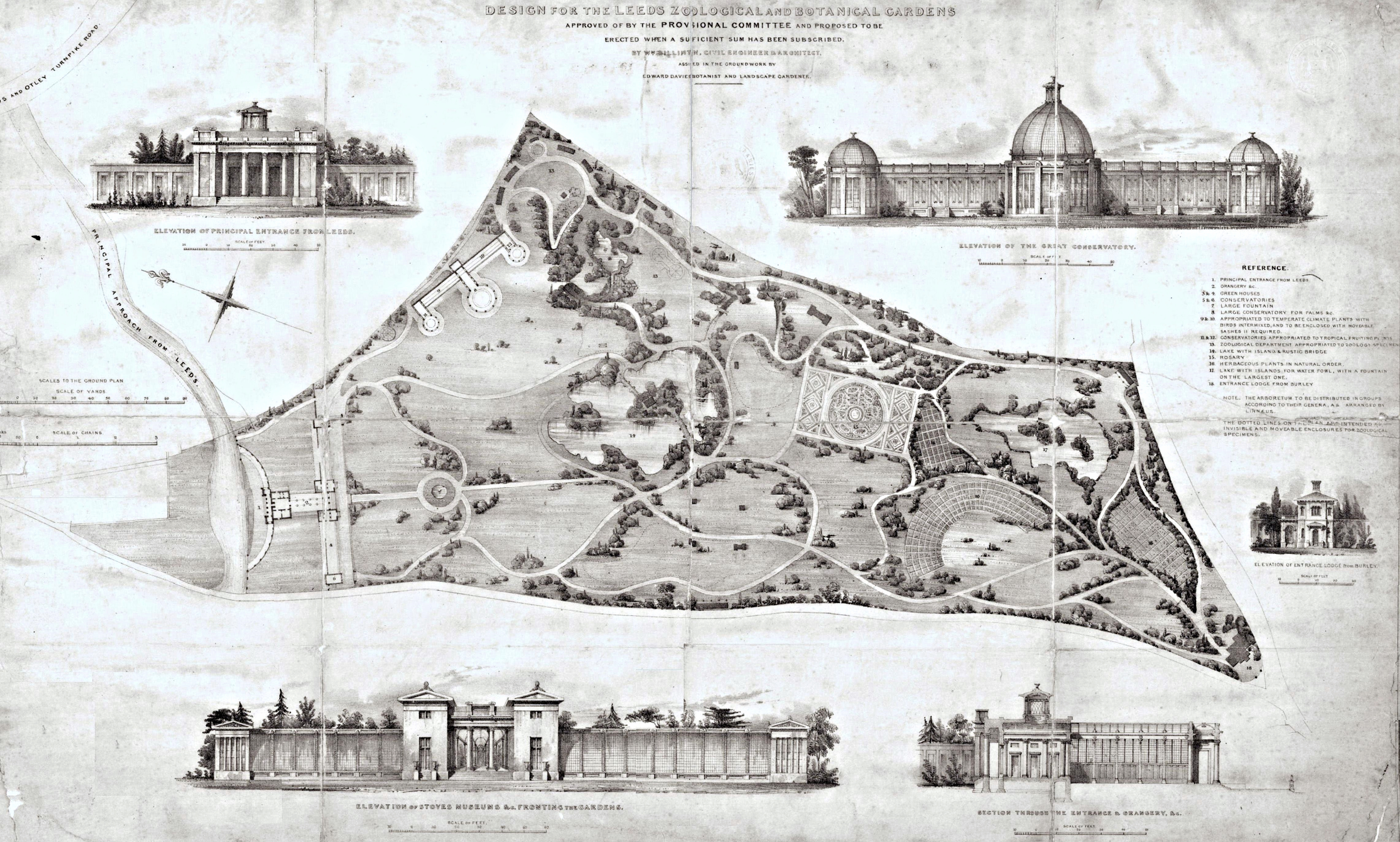 Design for the Leeds Zoological and Botanical Gardens